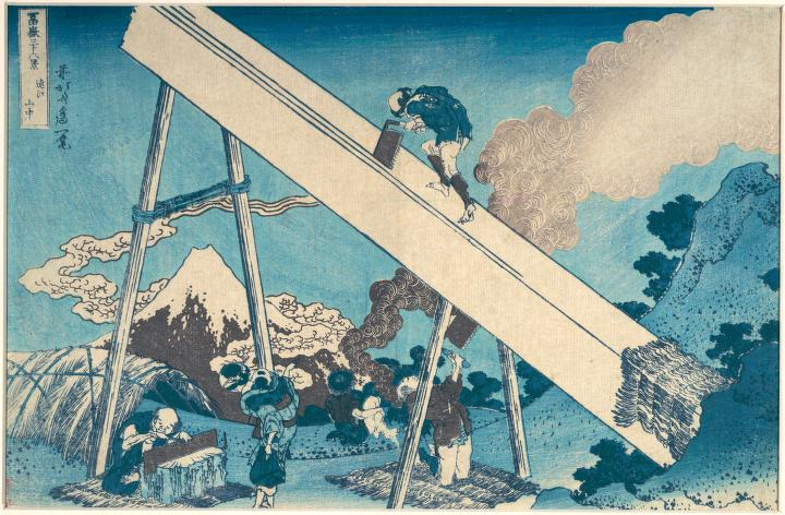 Title: Tōtōmi sanchū (In the mountains of Tōtōmi) Printmaker: Unidentified (Japanese) Measurements: 24.2 × 36.4 cm (sheet) Technique: Nishiki-e (color woodblock print) Inscription (signature): Zen Hokusai Iitsu hitsu